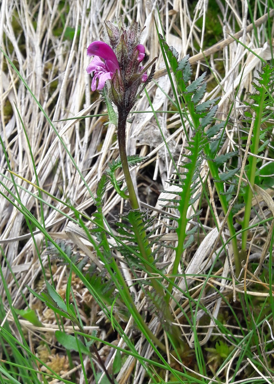 Pedicularis sudetica in Krkonoše Mountains, Czech Republic